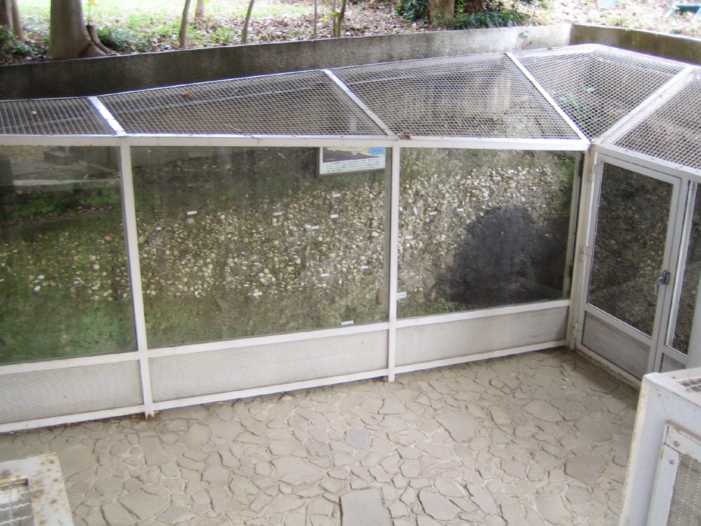 Shijimizuka Ruins (蜆塚遺跡), in Hamamatsu, Shizuoka, Japan